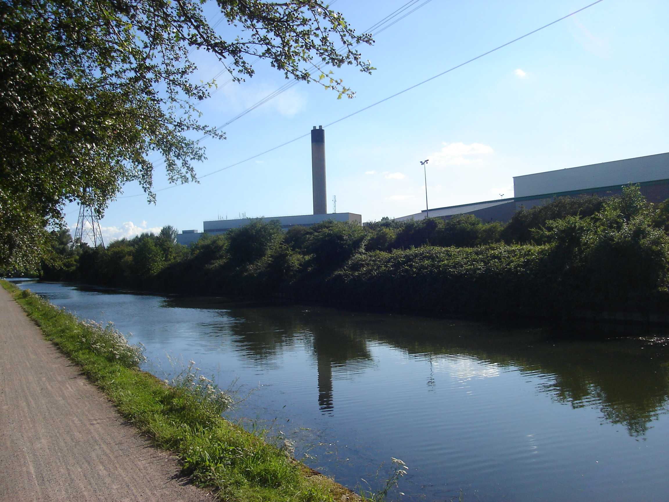 Picture of the Edmonton Incinerator